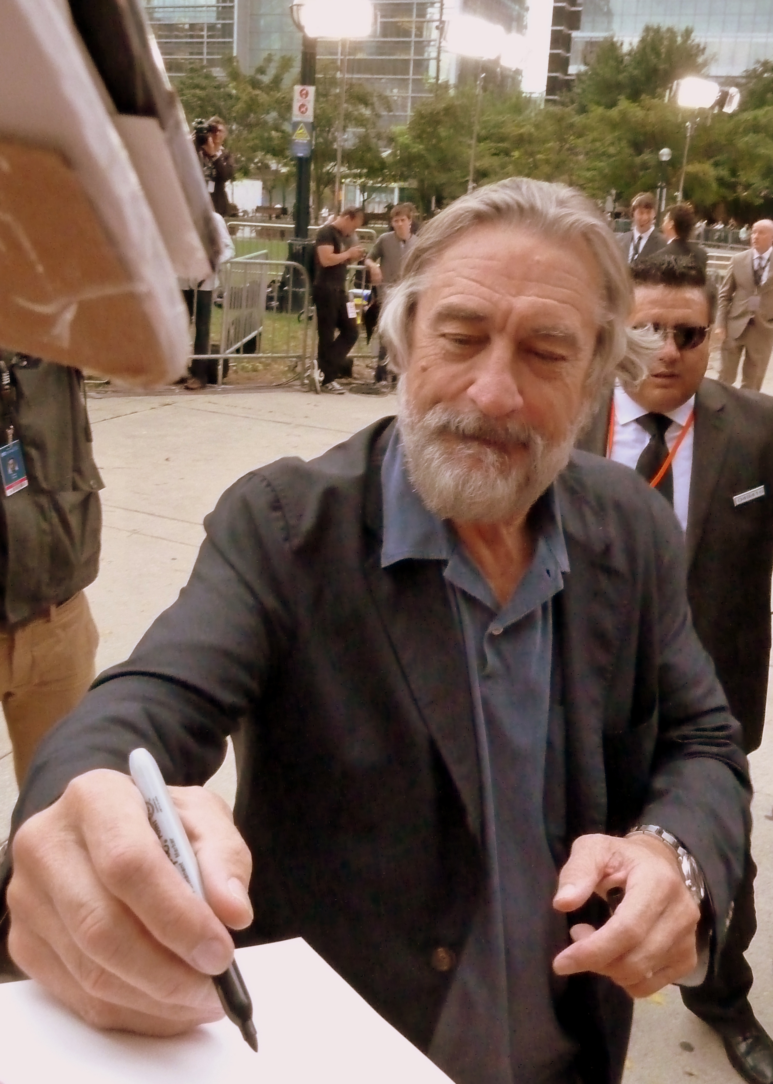 Robert De Niro at the premiere of Silver Linings Playbook, Toronto Film Festival 2012